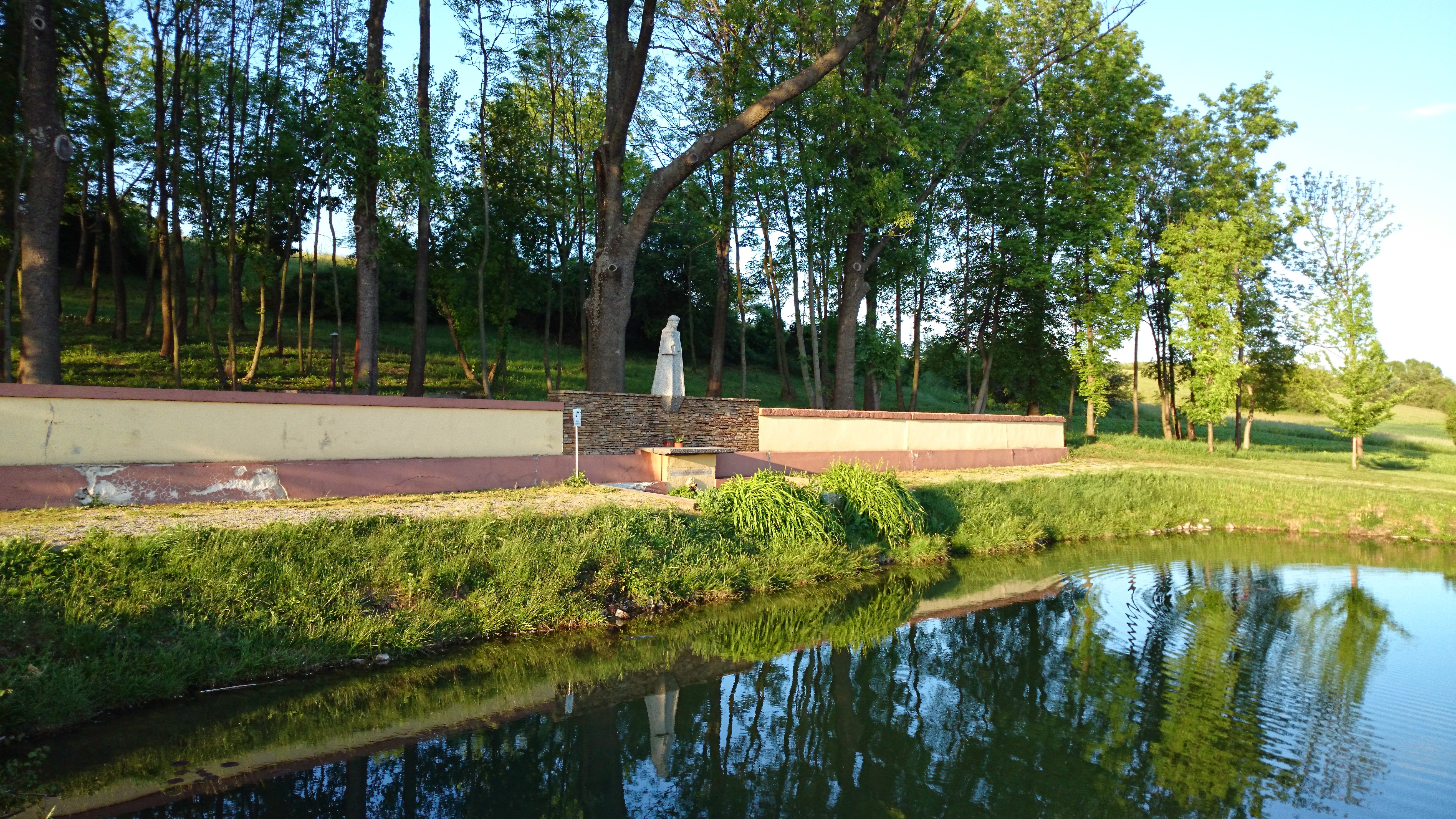 Marienbründl, the pond with the spring the place is dedicated This media shows the natural monument in Lower Austria with the ID GF-029.